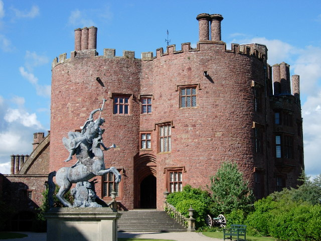 Powis castle. Powis is a Medieval castle rising dramatically above a celebrated garden overhung with enormous clipped yews. The garden is laid out under the influence of Italian and French styles, it retains its original lead statues, an orangery and an aviary on the terraces. In the 18th century an informal woodland wilderness was created on the opposite ridge. High on a rock above the terraces, the castle, originally built c.1200, began life as a fortress of the Welsh Princes of Powys and commands magnificent views toward England. Remodelled and embellished over more than 400 years, it reflects the changing needs and ambitions of the Herbert family, each generation adding to the magnificent collection of paintings, sculpture, furniture and tapestries. A superb collection of treasures from India is displayed in the Clive Museum. Edward, the son of Robert Clive, the conqueror of India, married Lady Henrietta Herbert in 1784, uniting the Powis & Clive Estates.